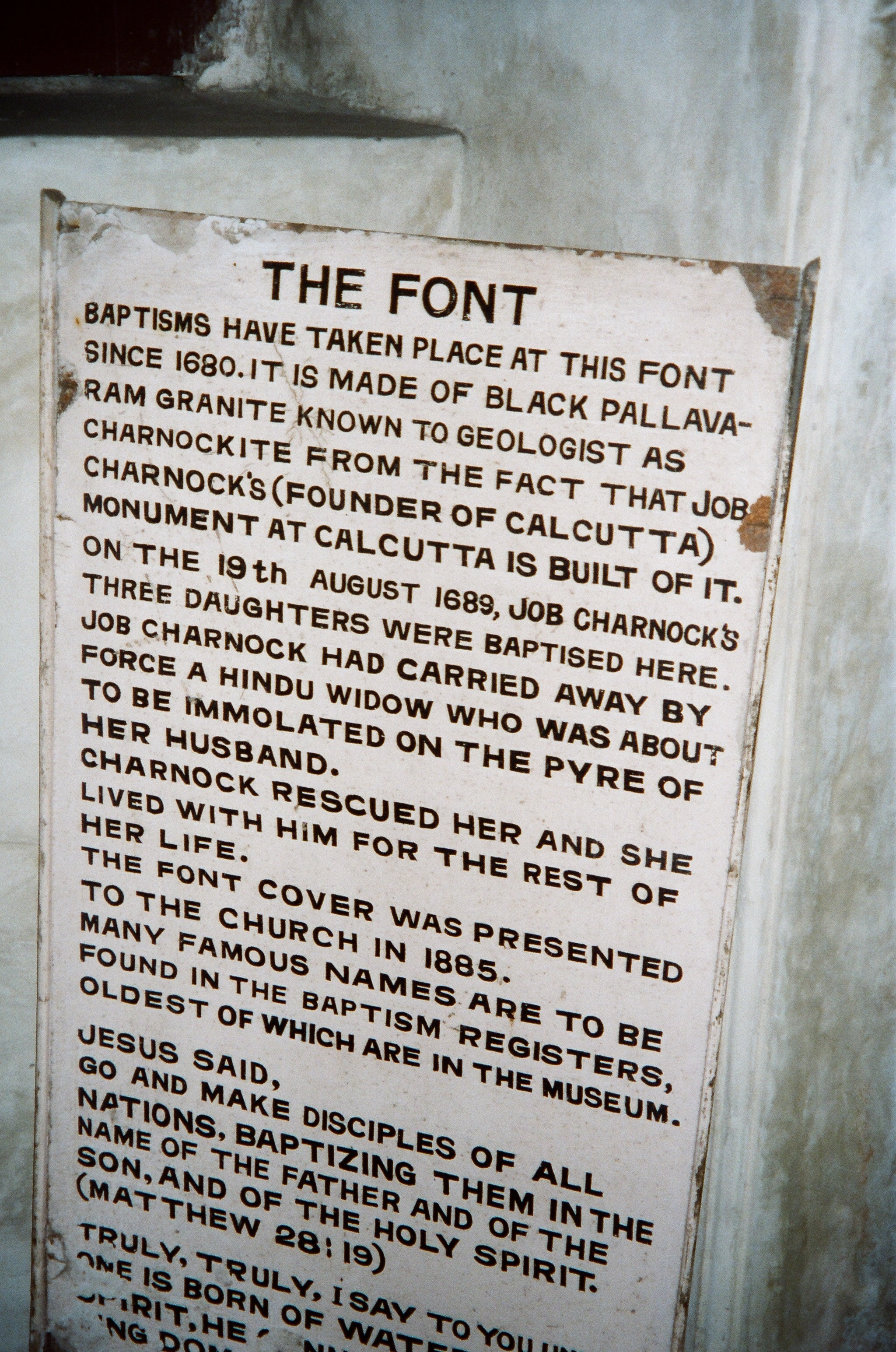 Plaque at St. Mary's Church in Fort st. George that gives details of the Baptismal Font made of Chranockite rocks and the history behind it